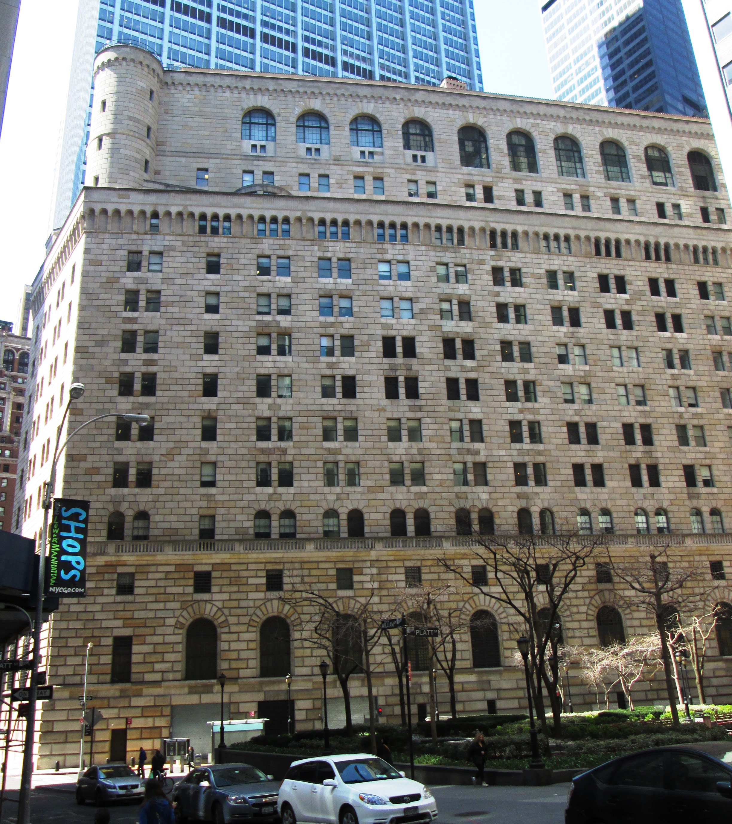 The Federal Reserve Bank of New York Building at 33 Liberty Street and occupying the full block between Liberty, William and Nassau Streets and Maiden Lane in the Financial District of Manhattan, New York City was built from 1919 through 1924, with an extension to the east built in 1935, all designed by York and Sawyer with decorative ironwork by Samuel Yellin of Philadelphia. (Sources: AIA Guide to NYC (5th ed.) and Guide to NYC Landmarks (4th ed.))